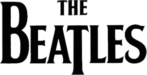 Wordmark of The Beatles, originally painted directly on drum by Erwin Ross, Hamburg